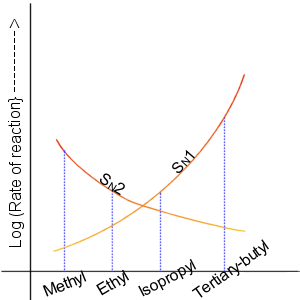 Graph of Sn2 and Sn2 reaction rates, designed by me, details being obtained from various texts